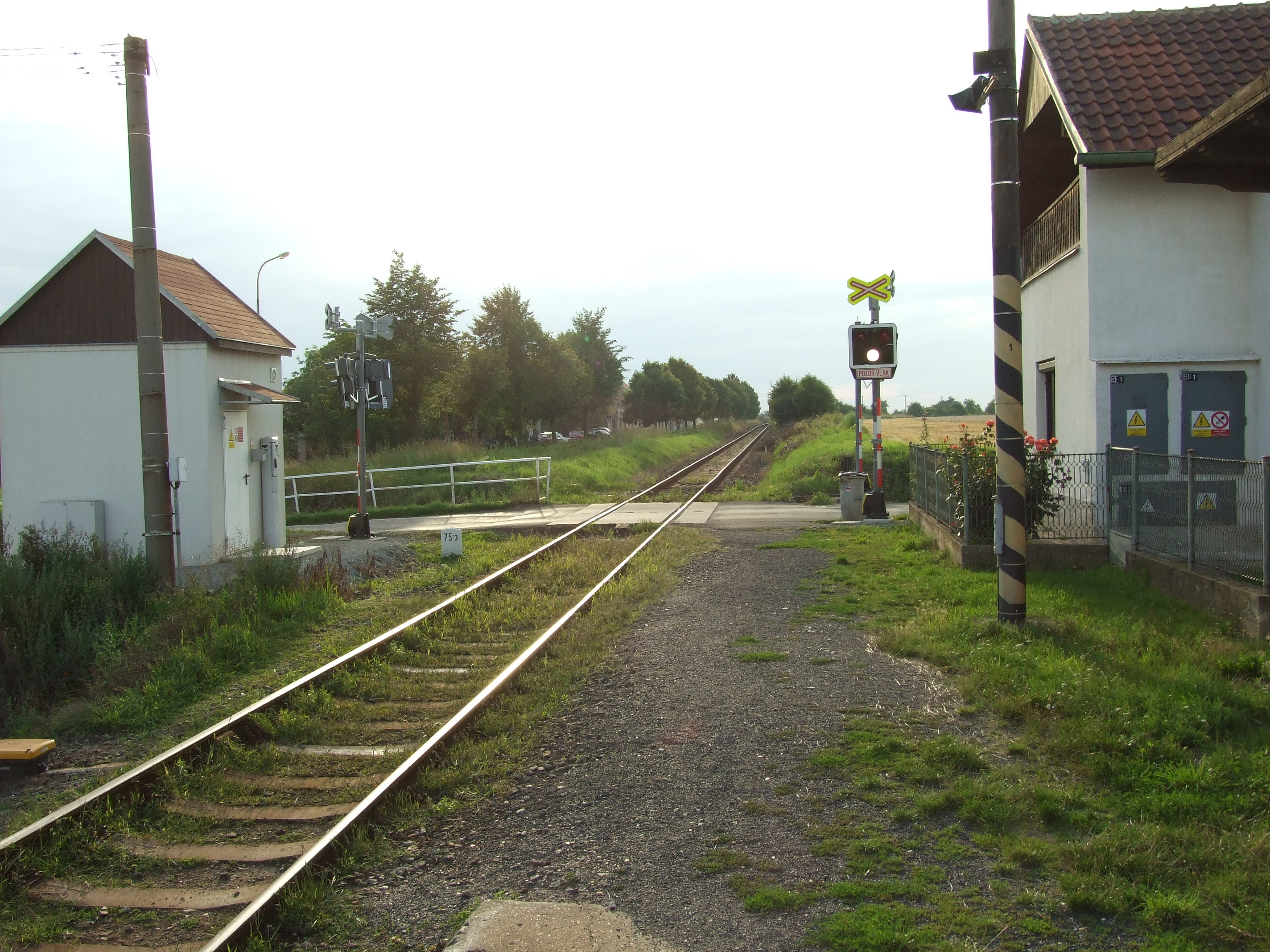 A rail/road crossing in Telce (town of Peruc), Ústí nad Labem Region, CZ